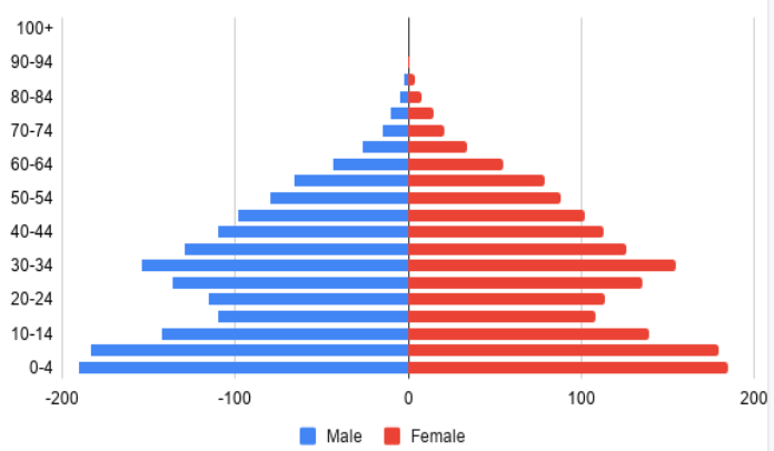 Mongoolia soolis-vanuseline rahvastikupüramiid